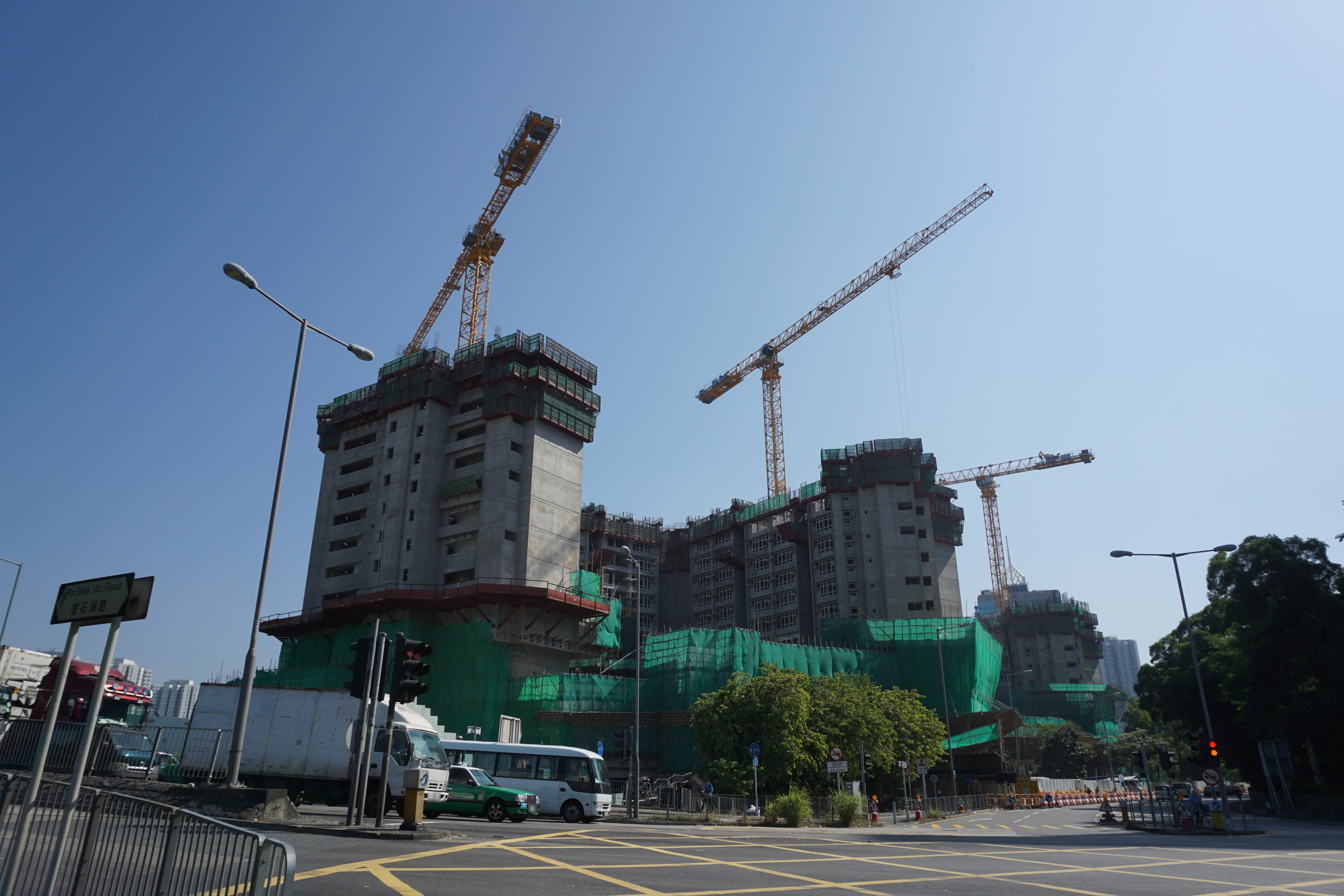 Po Shek Wu Estate in Sheung Shui, Hong Kong.